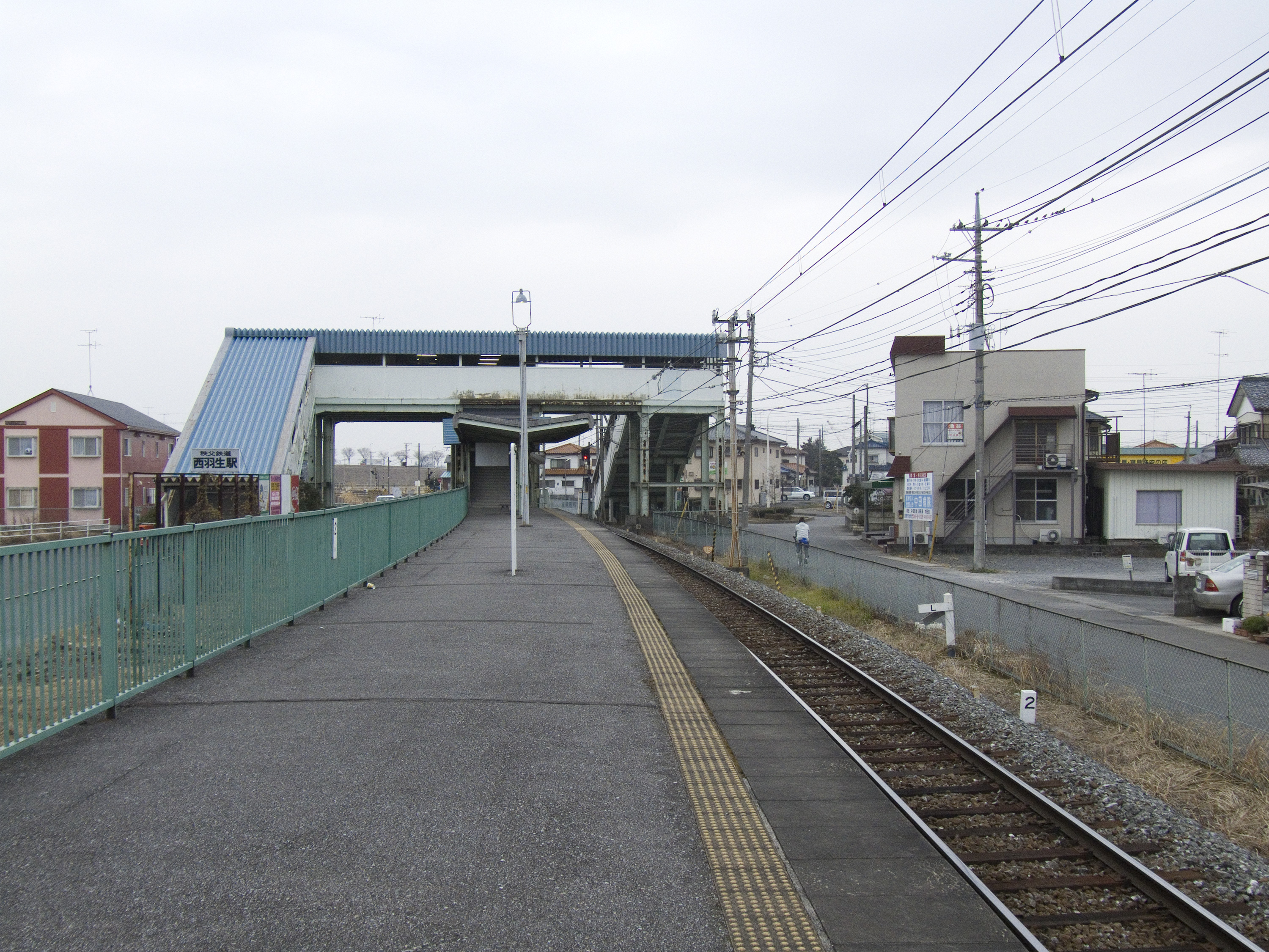 The platform at Nishi-Hanyu Station on the Chichibu Main Line in Hanyu city, Saitama Prefecture, Japan